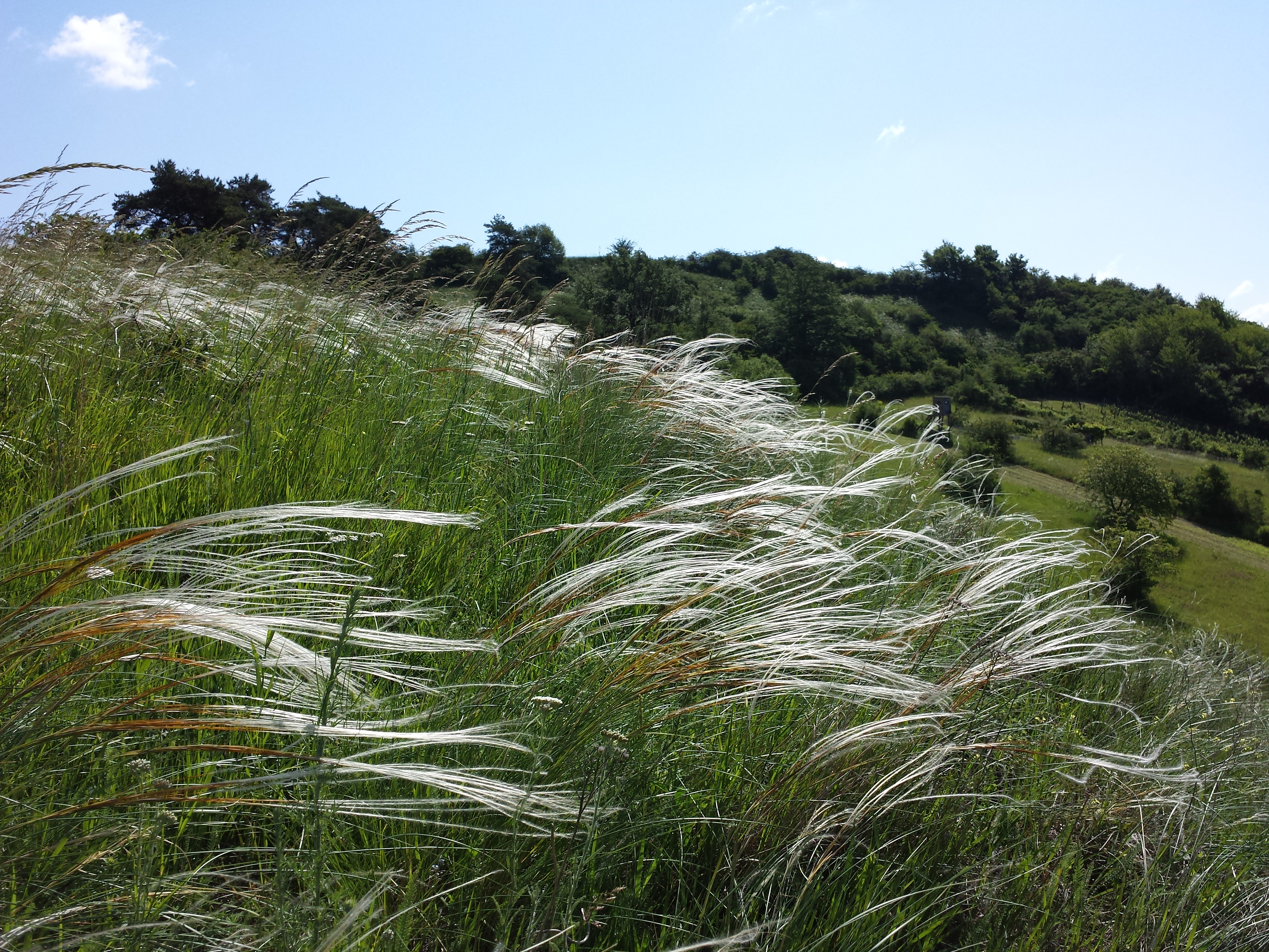 Haulesbergen, Ulrichskirchen-Schleinbach, district Mistelbach, Lower Austria - ca. 200 m a.s.l. Dry grassland over Loess with Stipa pennata agg.